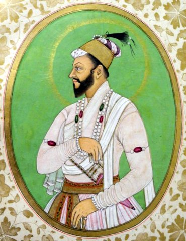 Album leaf. Portrait. Murád Baxsh + inscription. On paper. See 1974,0617,0.11 for album description.